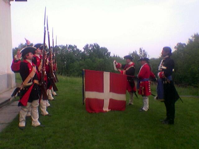 Giuramento del Gruppo Storico Rehbinder